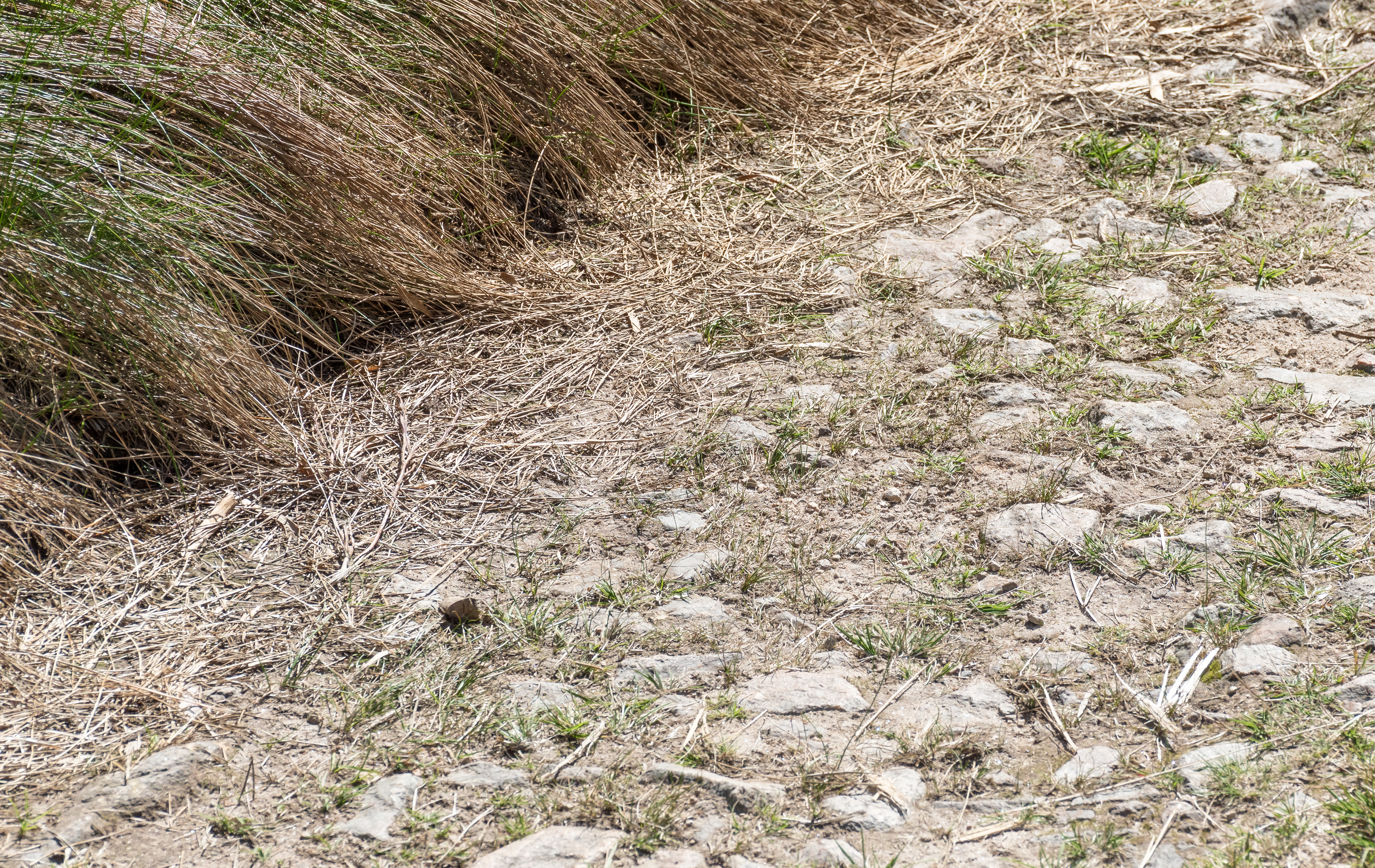 Marianne Road, cobblestone road surface, Bialskie Mountans, Sudetes